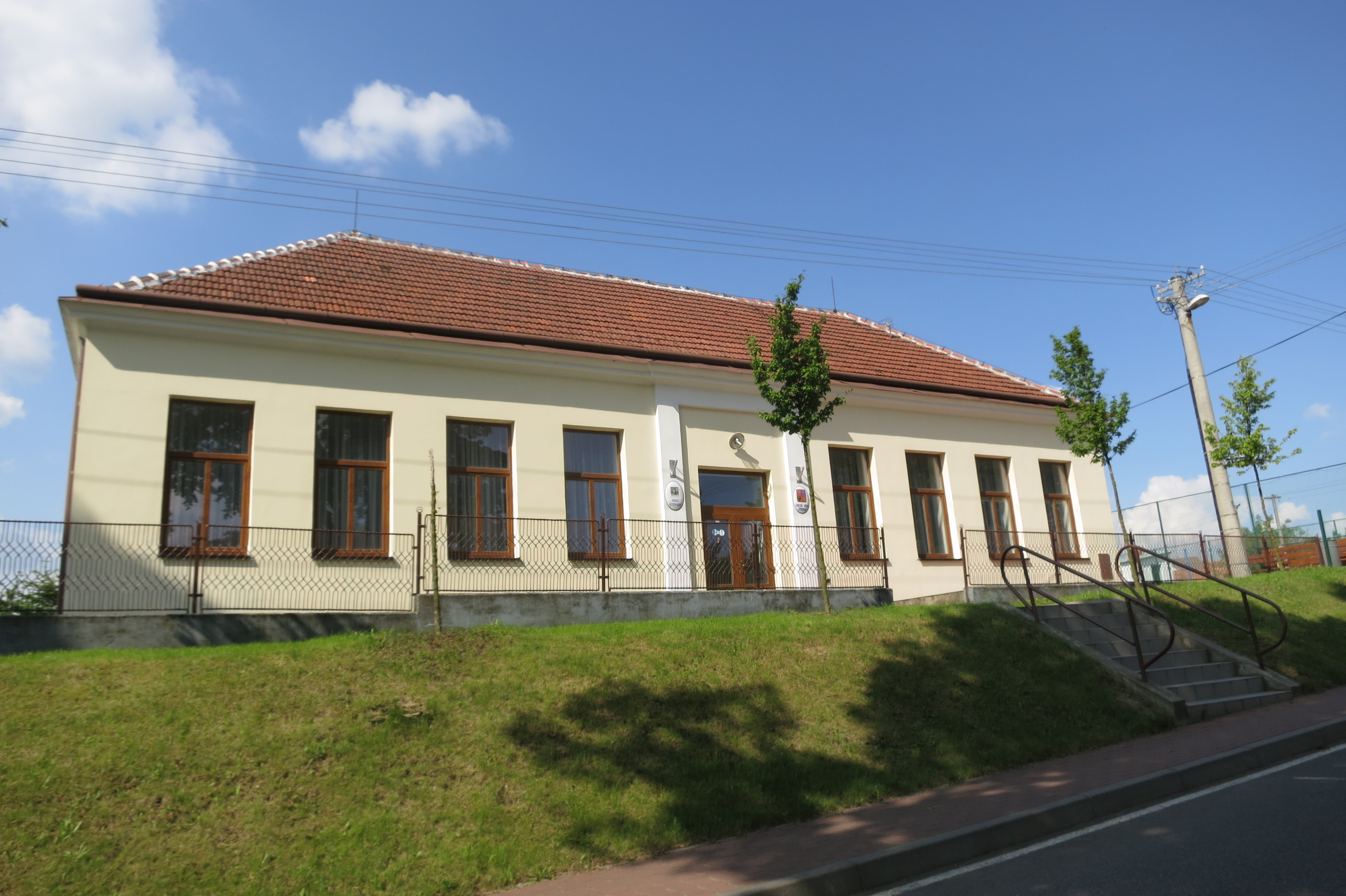 Municipal office in Štěpkov, Třebíč District.